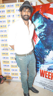 Karan Hariharan at the Trailer Launch of his Debut Movie 'Missing on a Weekend'